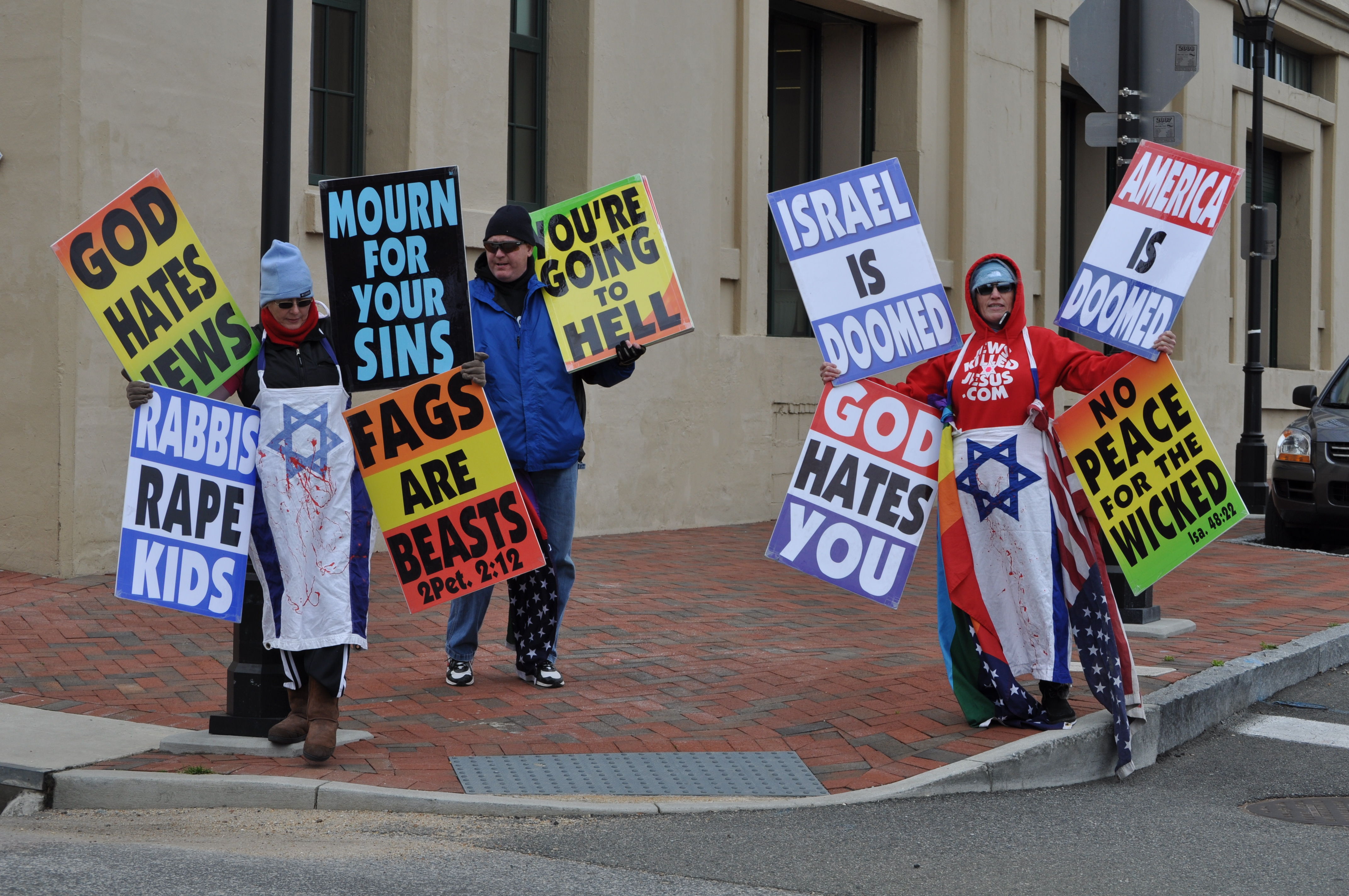 Members of the Westboro Baptist Church demonstrate at the Virginia Holocaust Museum on March 2, 2010.